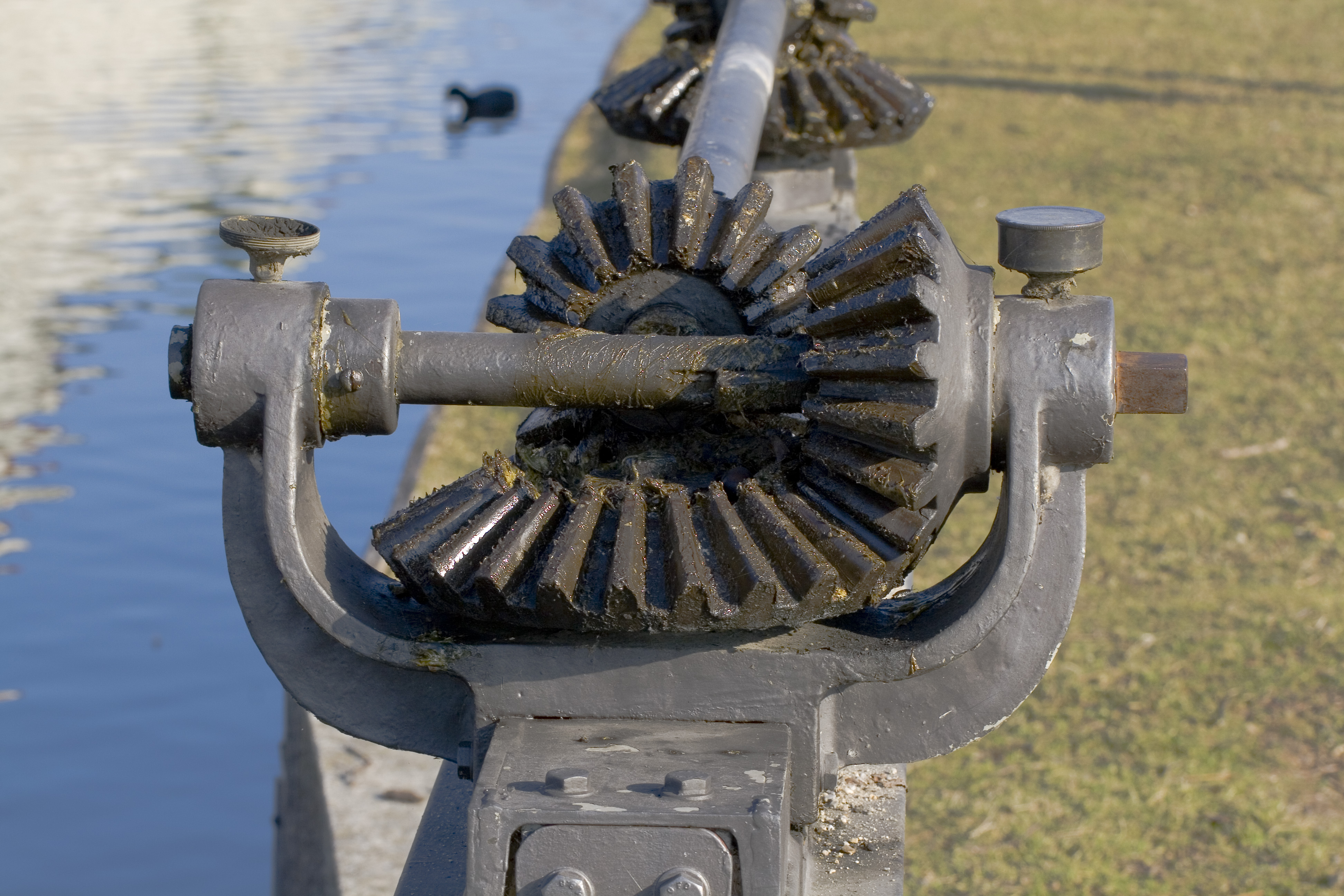 Bevel gear, Nymphenburg, Munich, Germany